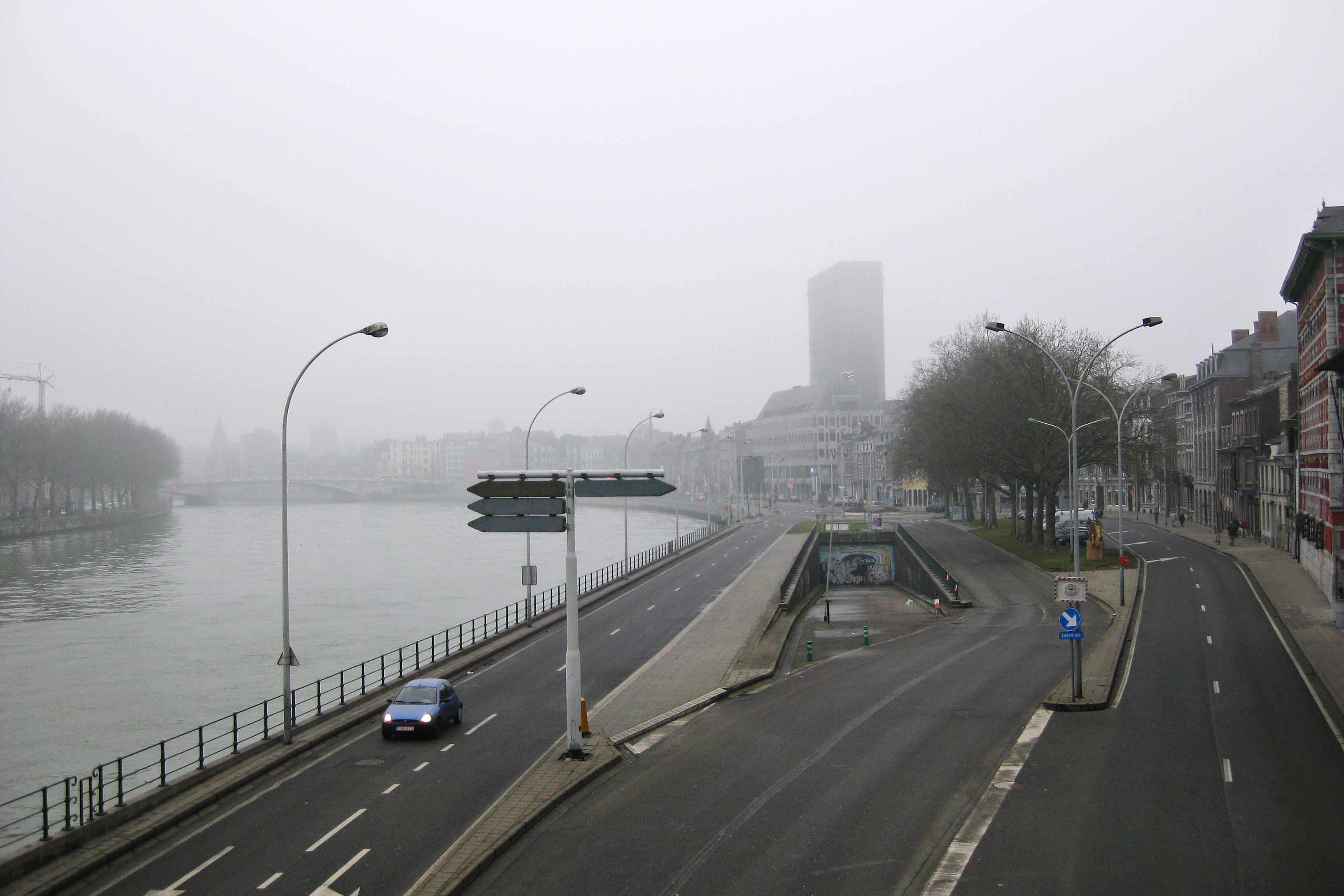 Entrance to an unused metro tunnel between the Quai de Maestricht and the Quai Saint-Léonard at Liège, Belgium